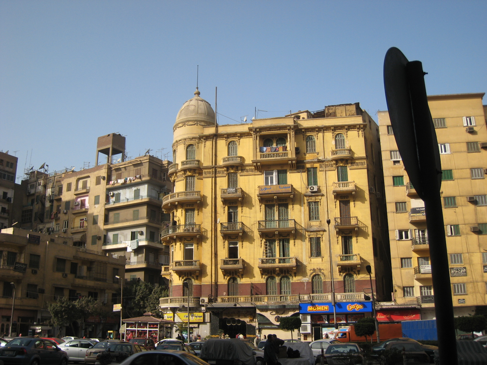 French colonial meets Soviet concrete — in Cairo.